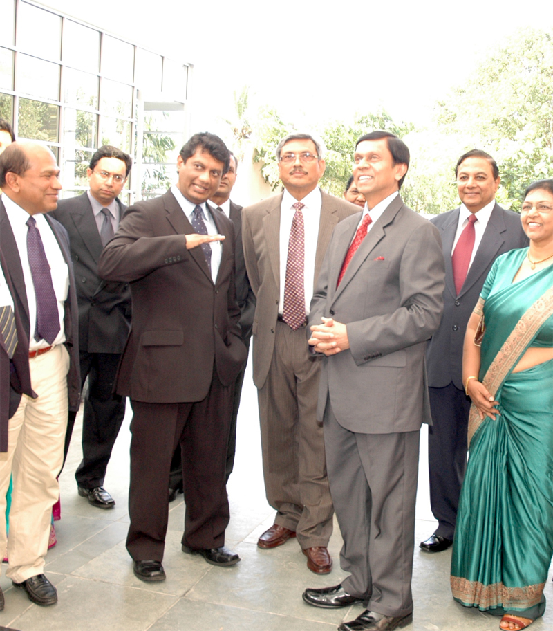 Nalaka Godahewa with Chairman Gotabaya Rajapaksa and Central Bank Governor Nivad Cabraal